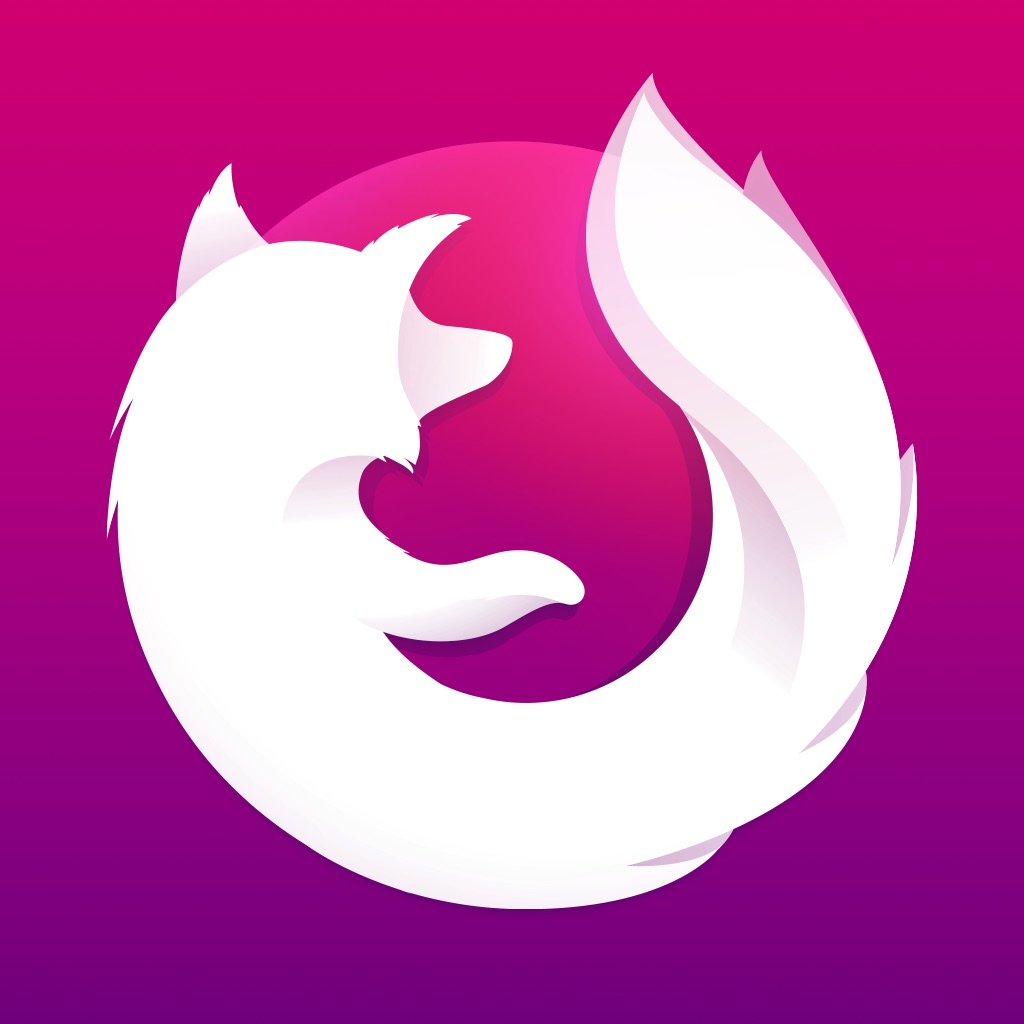 Mozilla Firefox Focus Logo